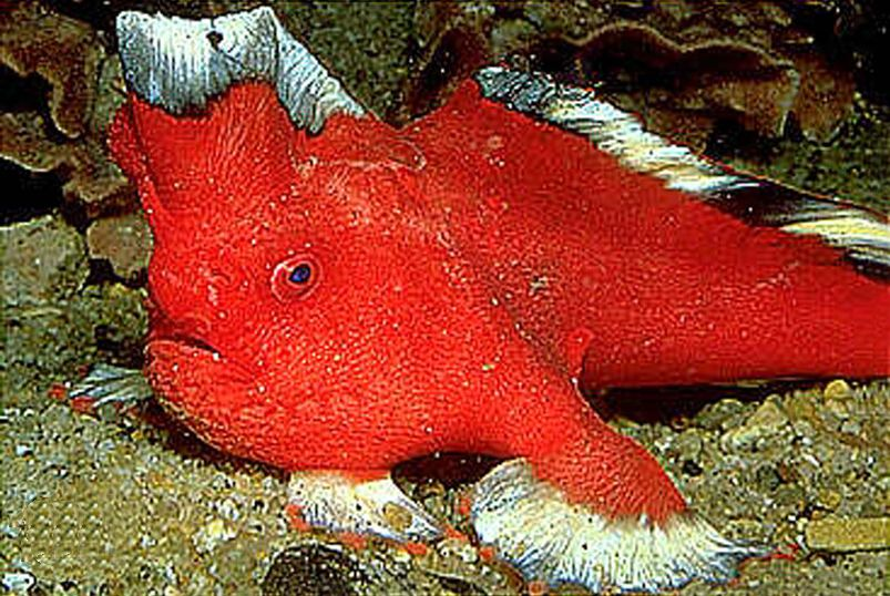 Sympterichthys politus (Richardson).